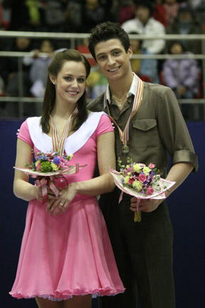 Tessa Virtue & Scott Moir during the ice dancing medals ceremony at the 2008 Four Continents Figure Skating Championships. They won the gold medal at this competition.